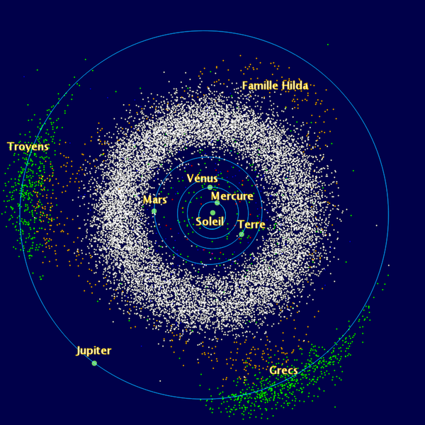 The inner Solar System, from the Sun to Jupiter. Also includes the Main Asteroid Belt (the white donut-shaped cloud), the Hildas (the orange "triangle" just inside the orbit of Jupiter) and the Jovian Trojan's (green). The group that leads Jupiter are called the "Greeks" and the trailing group are called the "Trojans" (Murray and Dermott, Solar System Dynamics, pg. 107). This image is based on data found in the JPL DE-405 ephemeris, and the Minor Planet Center database of asteroids (etc) published 2006 Jul 6. The image is looking down on the ecliptic plane as would have been seen on 2006 August 14. It was rendered by custom software written for Wikipedia.